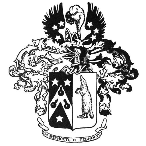 Coat of arms of the House of Barsukov